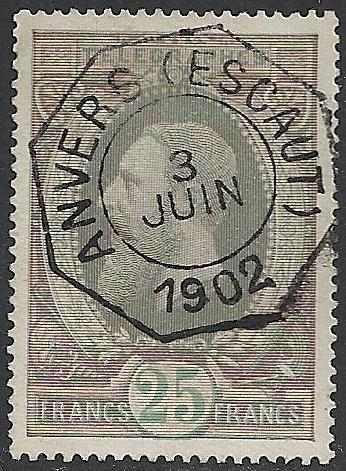 Belgium 1902 telegraph stamp.